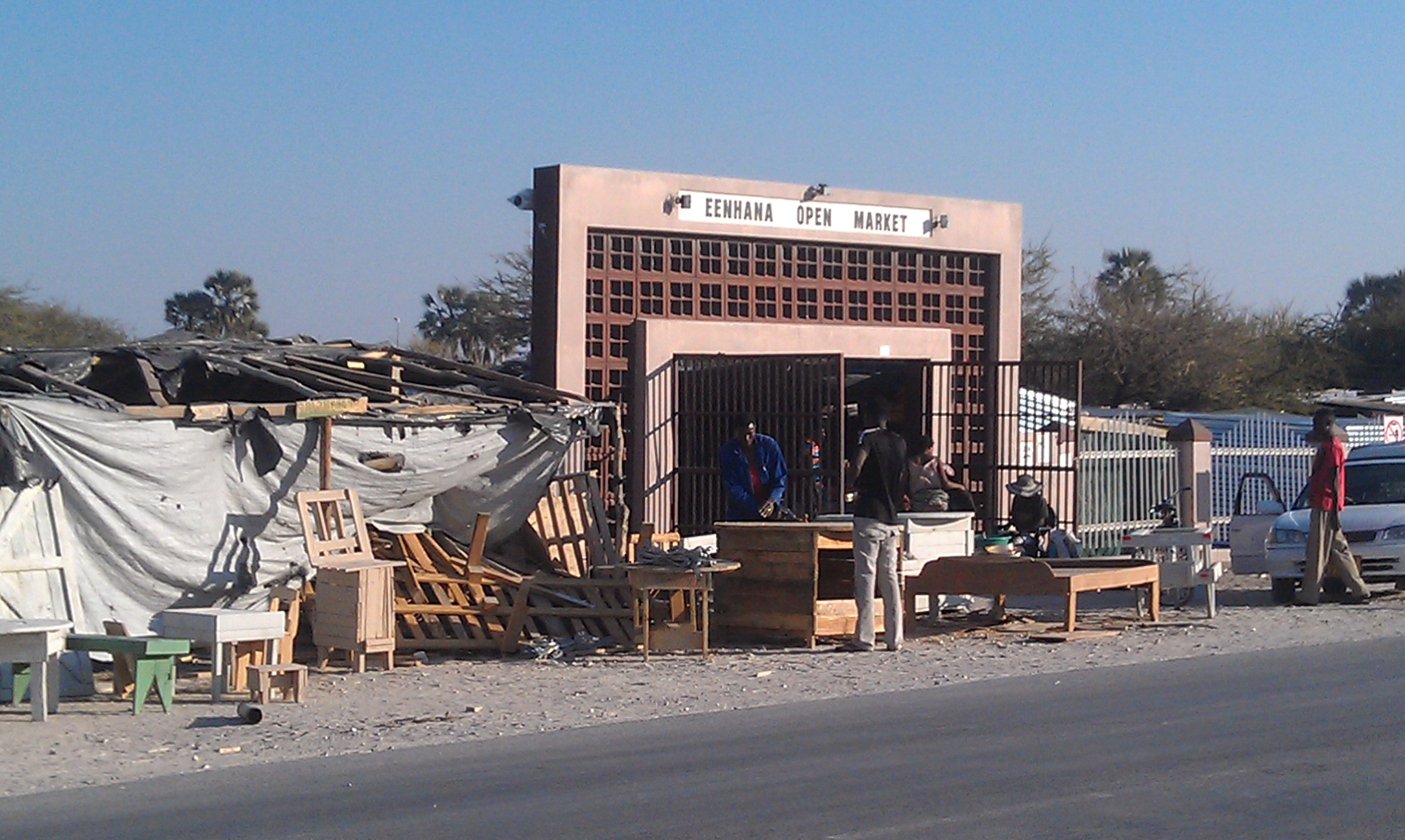 Eenhana Open Market Gateway